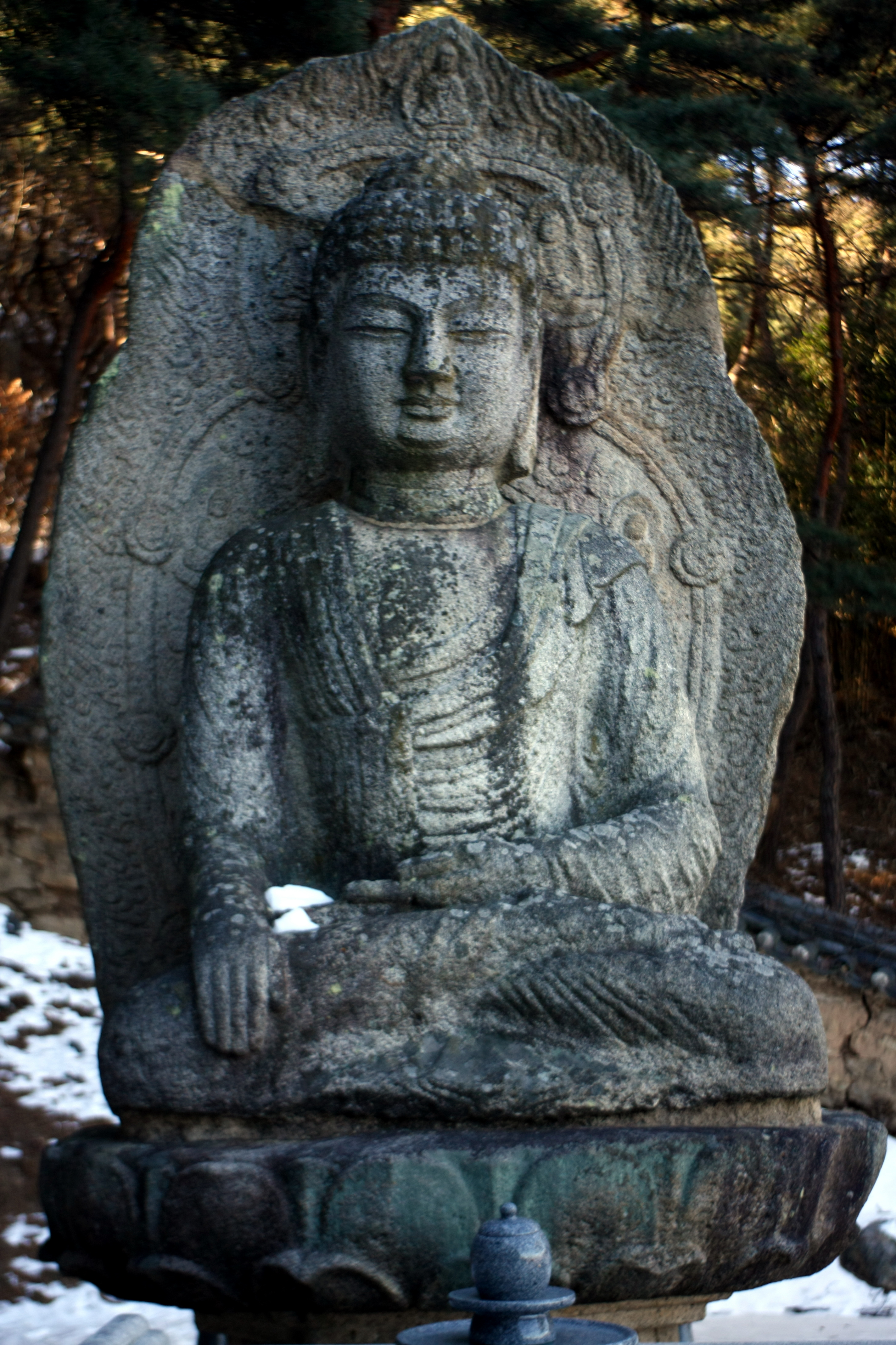 Seated Buddha statues in Gyeongju Namsan mireukgok